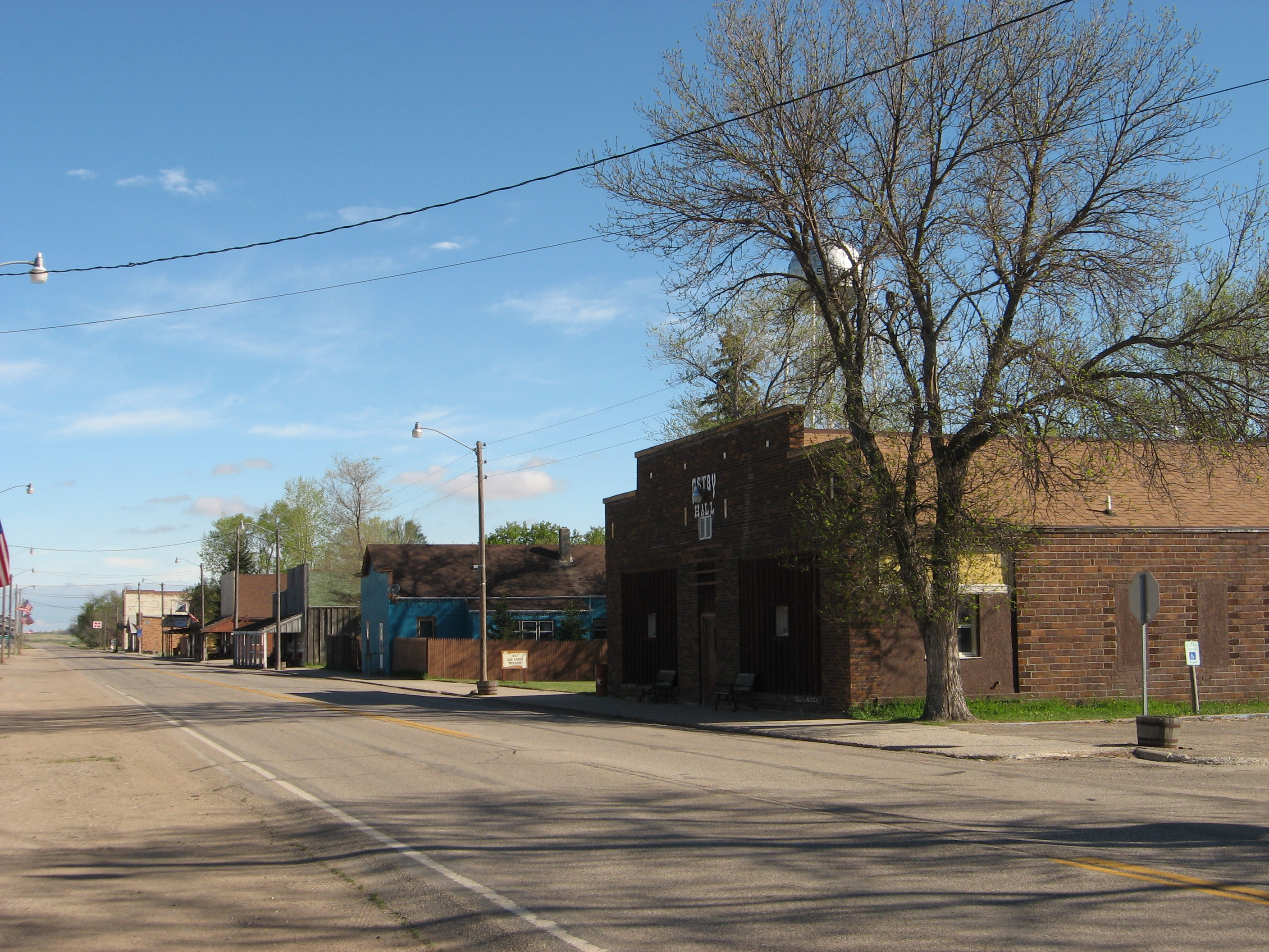 U.S. Highway 281 in Sheyenne, North Dakota